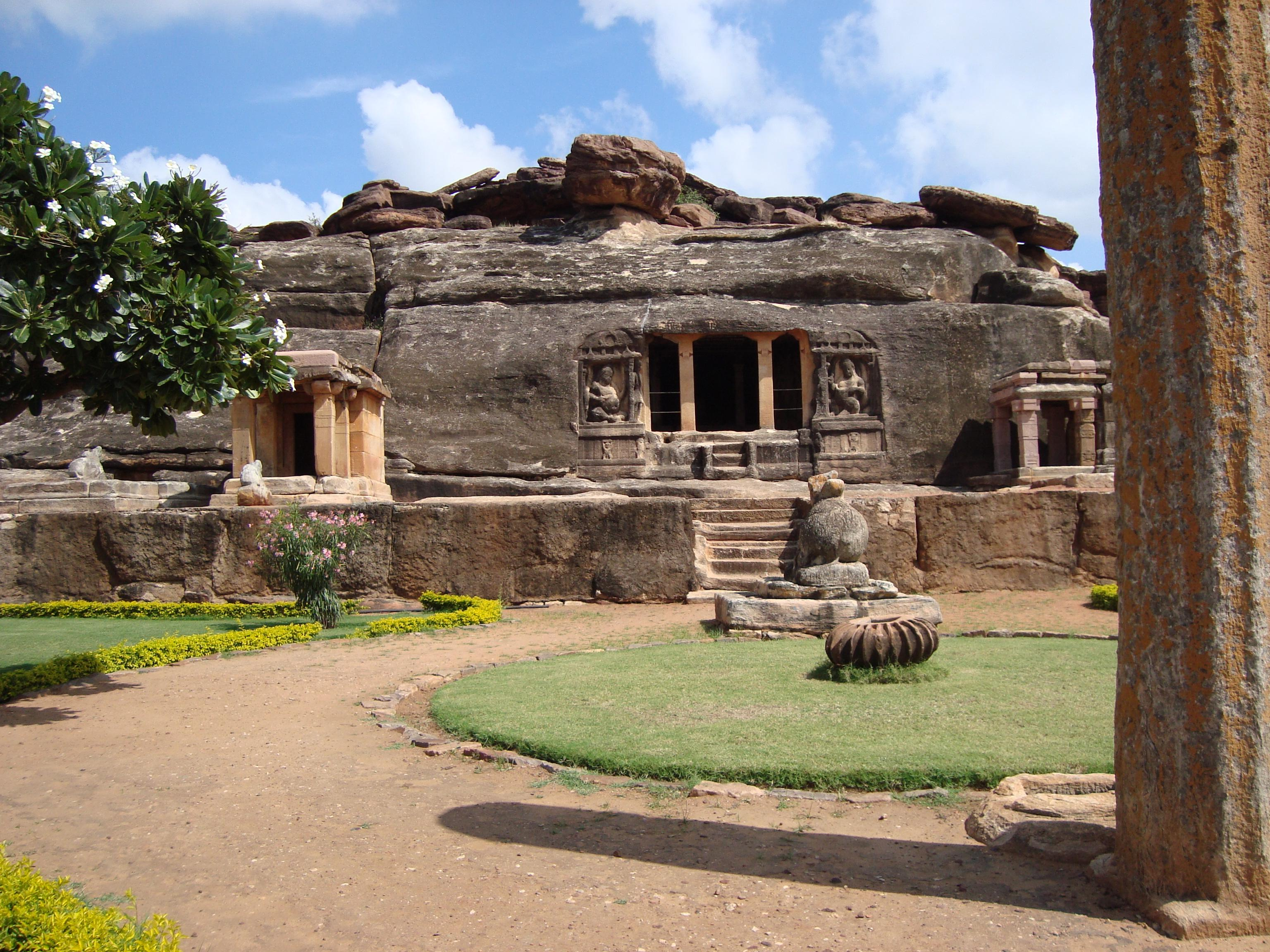 Ravana Phadi cave at Aihole Manjuanth Doddamani, Gajendragad / Hubli, Karnataka, India